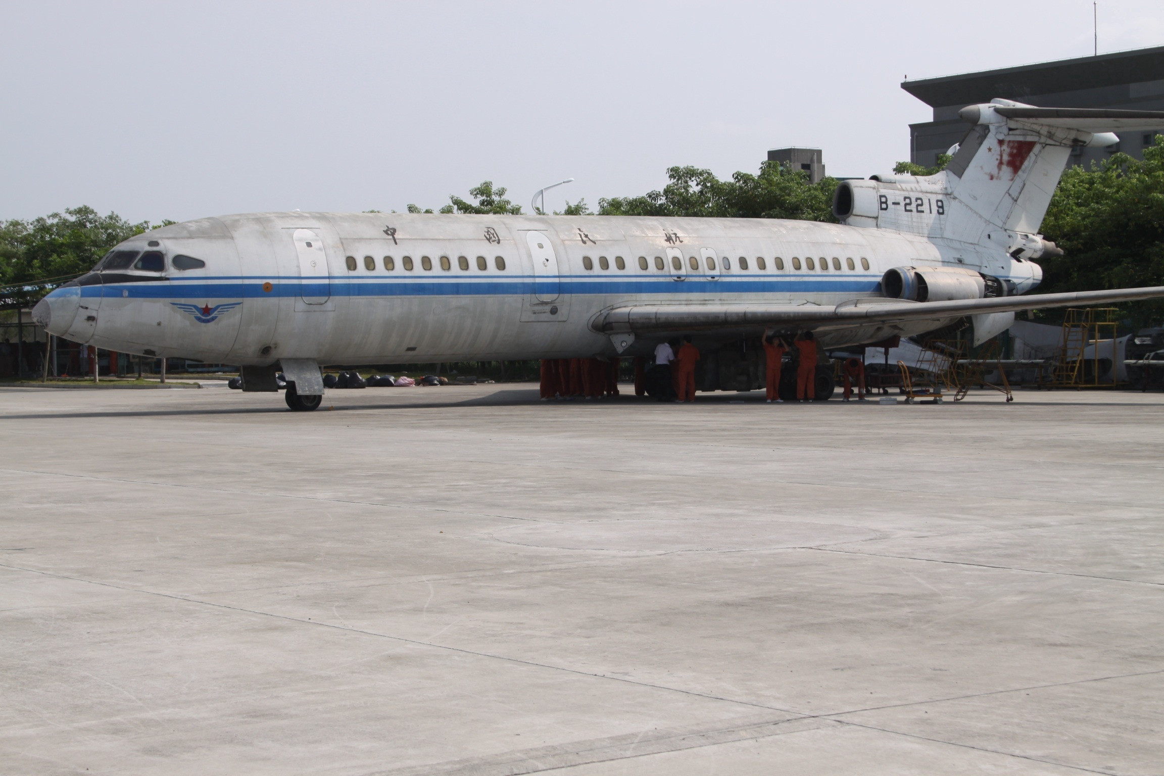 At Guangzhou Baiyun